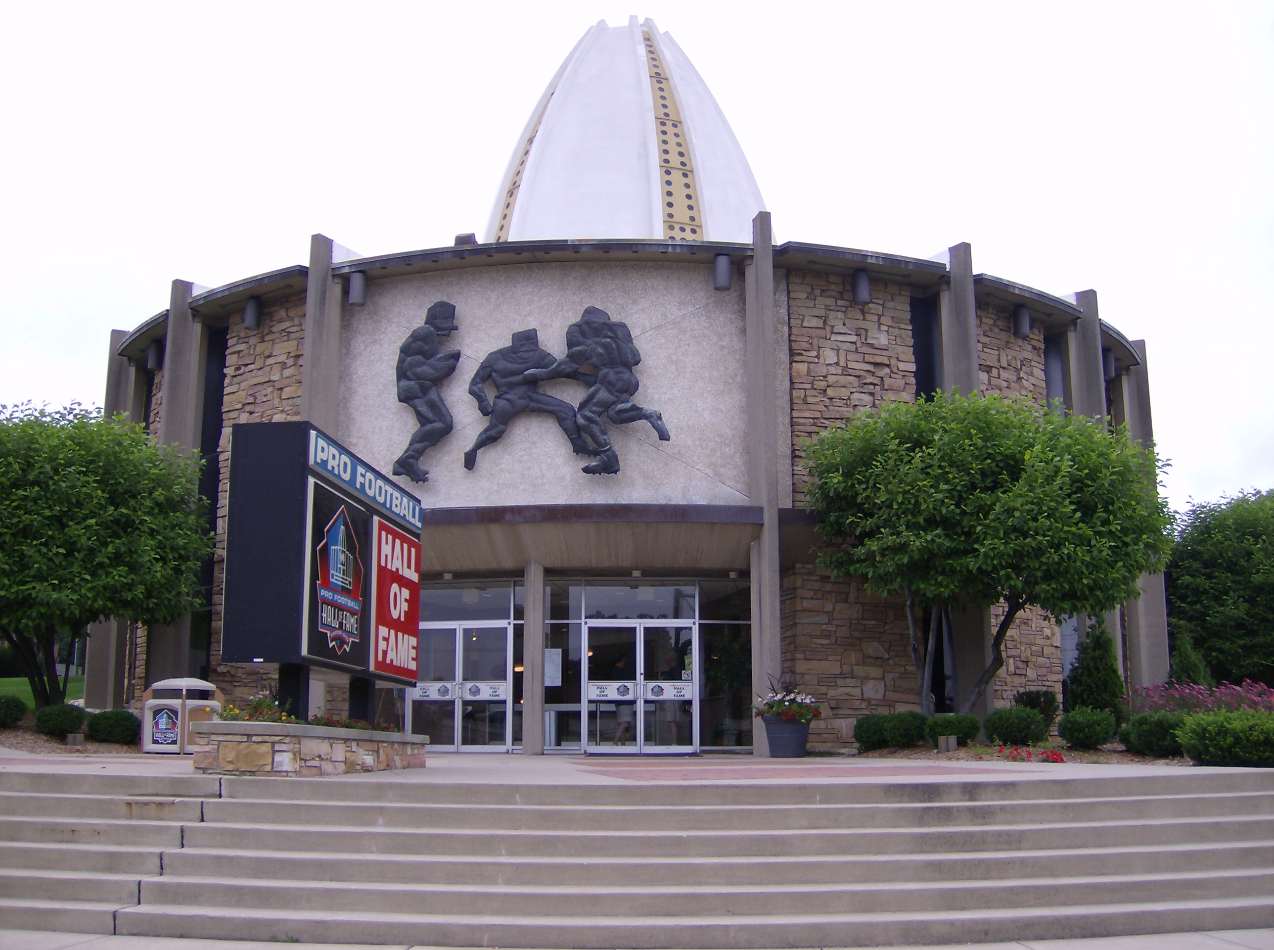 Pro Football Hall of Fame, at Canton, Ohio, United States.